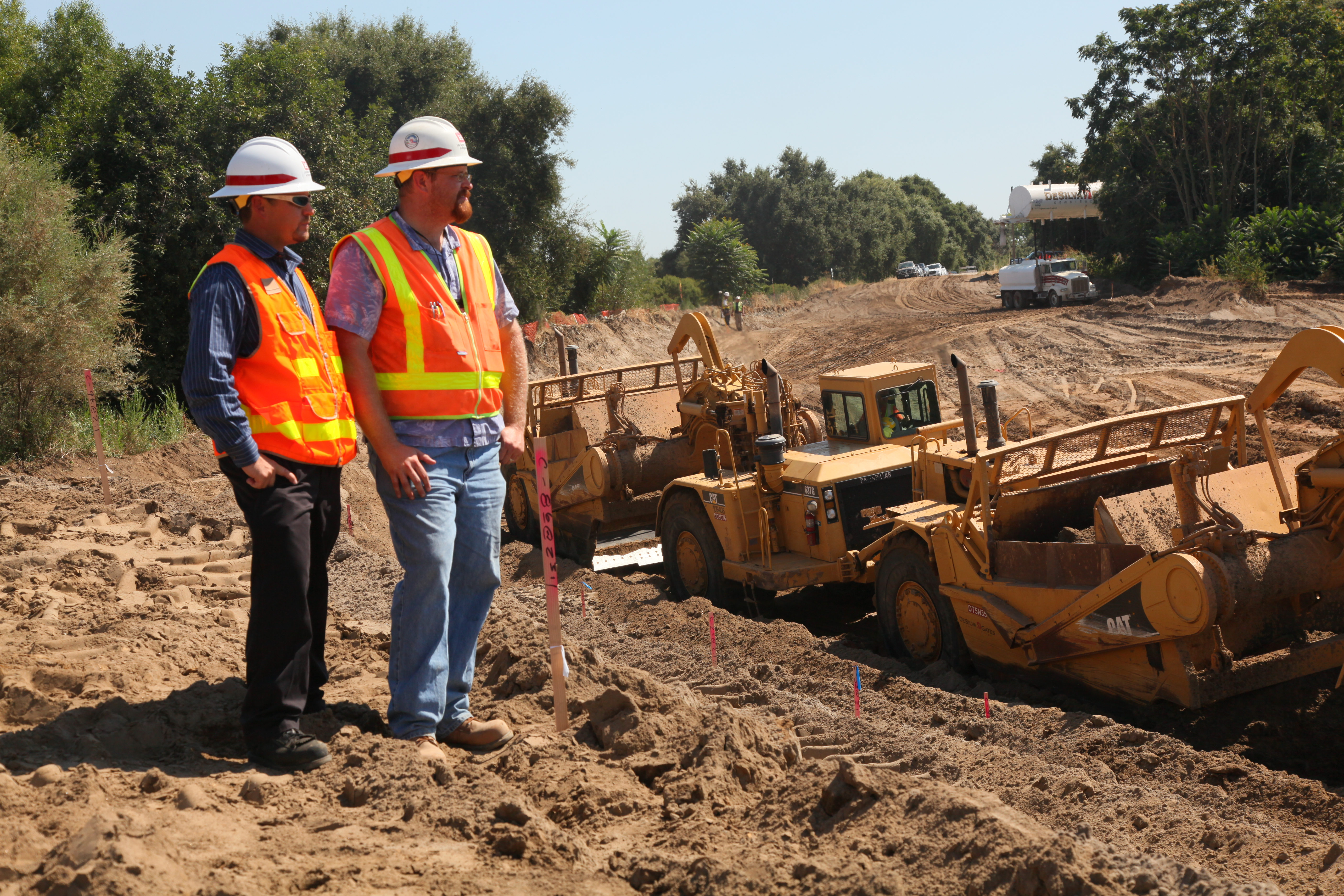 Project manager Dave Cook (left) and construction representative Edward Stewart discuss the progress of setback levee construction Sept. 7 in West Sacramento as part of a joint effort between the U.S. Army Corps of Engineers and the Central Valley Flood Protection Board to upgrade levees along the Sacramento River and its tributaries. (U.S. Army Photo/Michael J. Nevins)